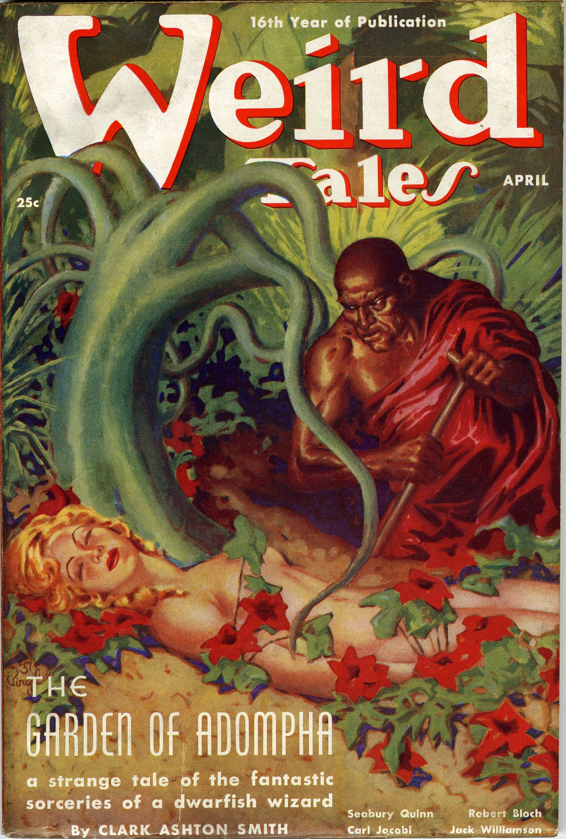 Cover of the pulp magazine Weird Tales (April 1938, vol. 31, no. 4) featuring The Garden of Adompha (a Zothique short story) by Clark Ashton Smith. Cover art by Virgil Finlay.